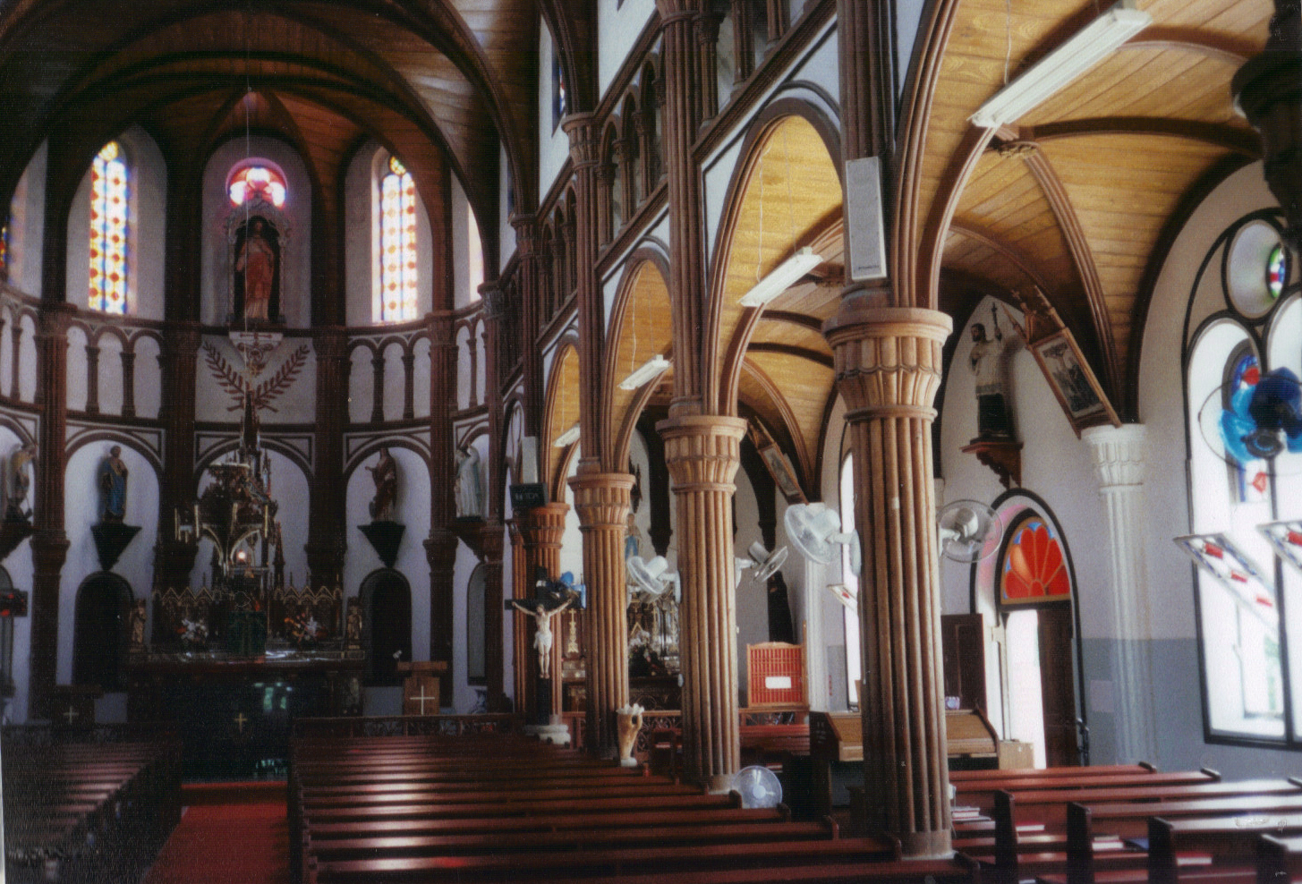 Kuroshima Island near Sasebo, Nagasaki Ken, Japan.